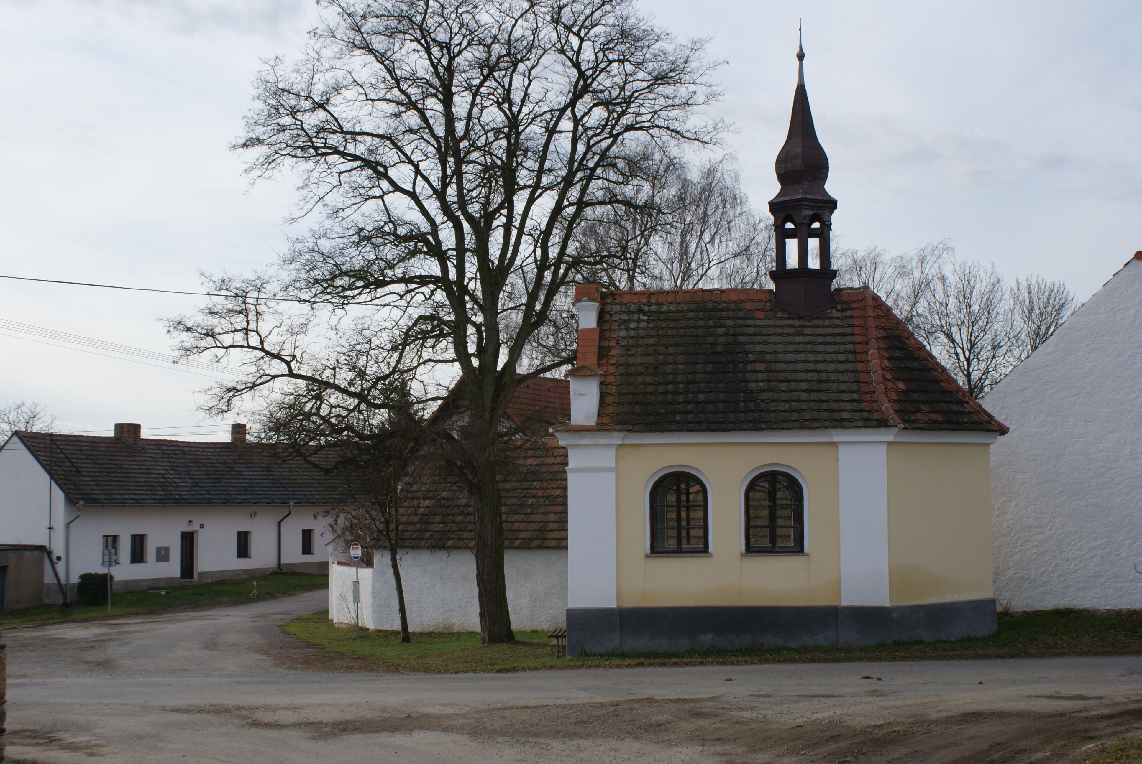 Chapel in Šamonice part of Předotice, Písek District, Southern Bohemia